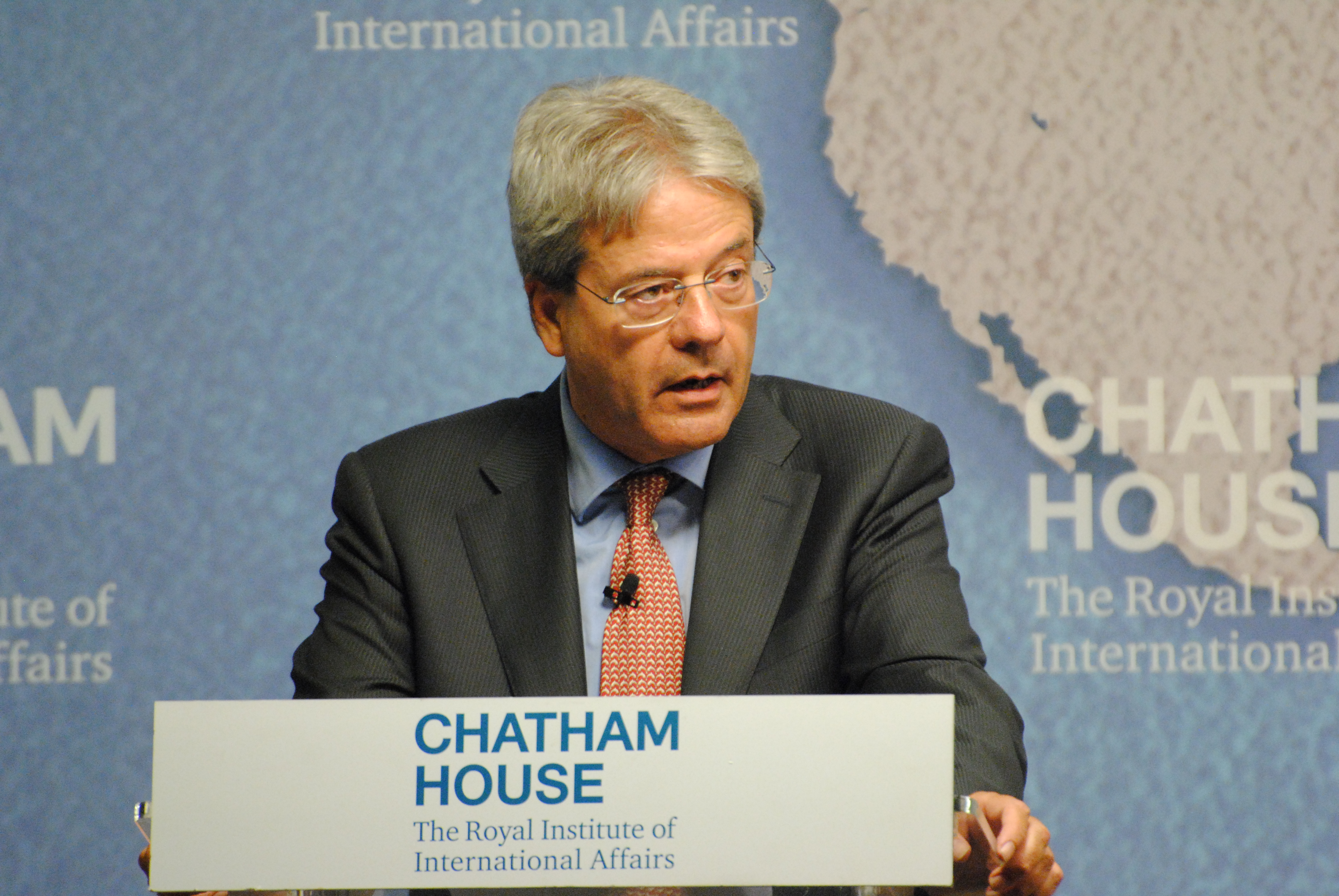 Crises Across the Mediterranean: Confronting Common Challenges, 14 September 2015, cht.hm/1F8HmO6